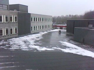 A photo taken by Remco Beugels of the Sintermeertencollege.